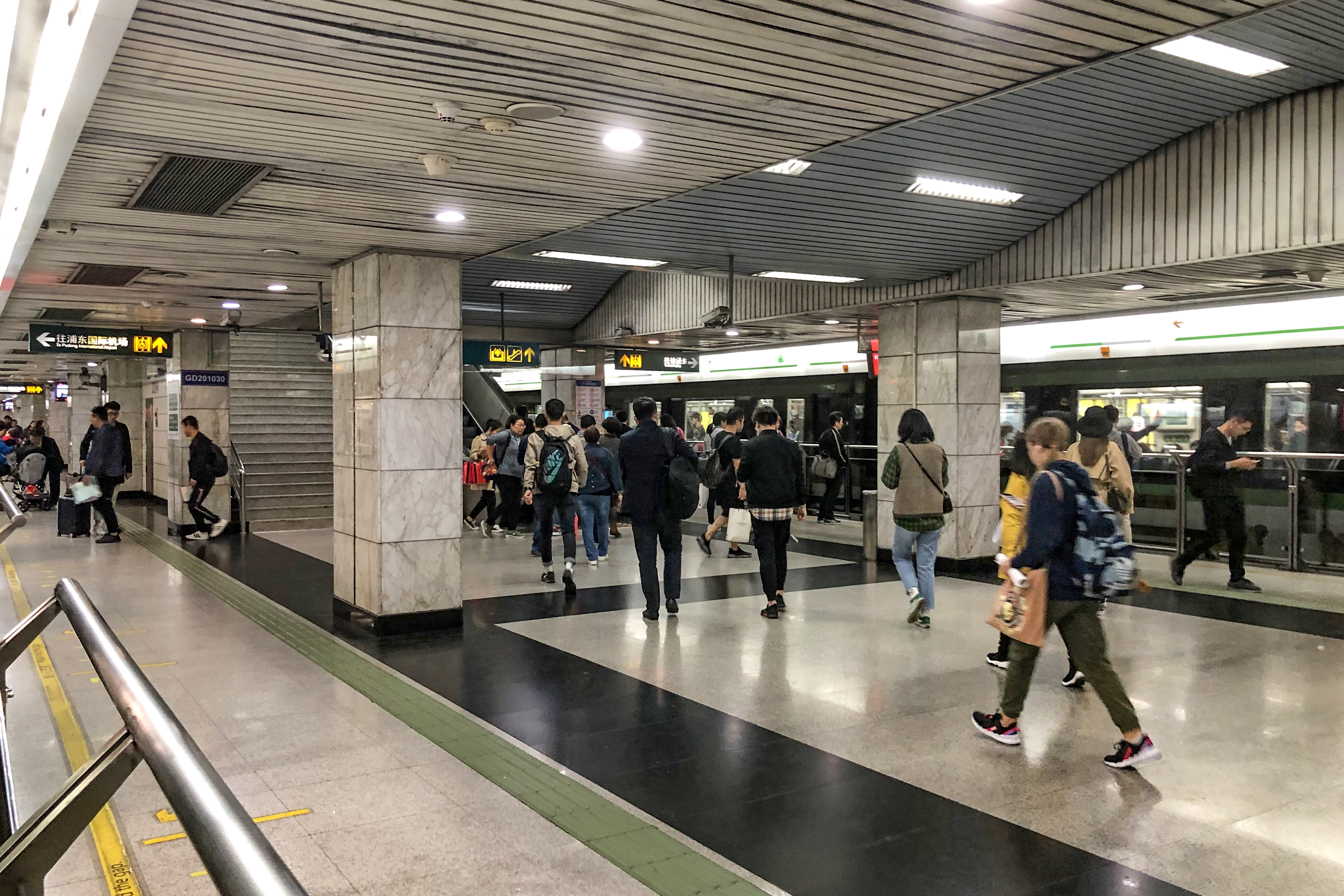 Named after Dongchangfu, Liaocheng?